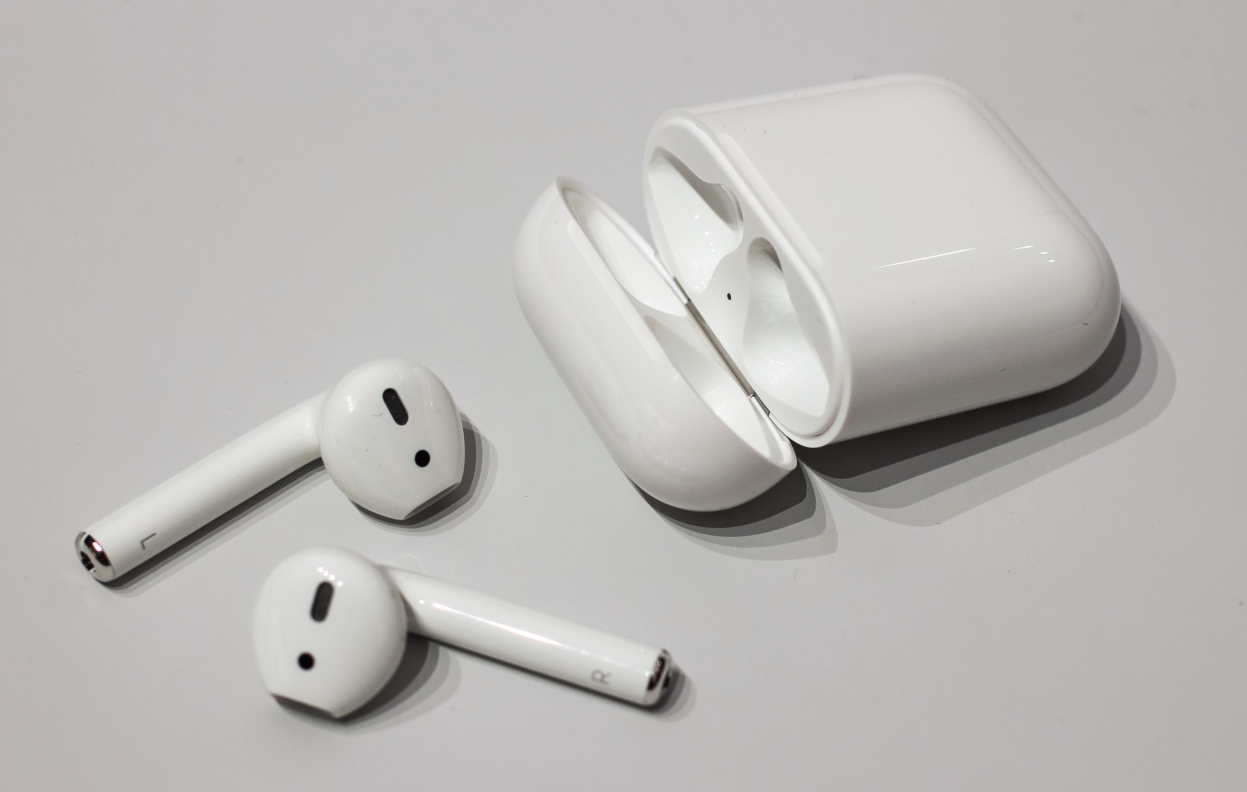 Photo of Apple AirPods wireless headphones